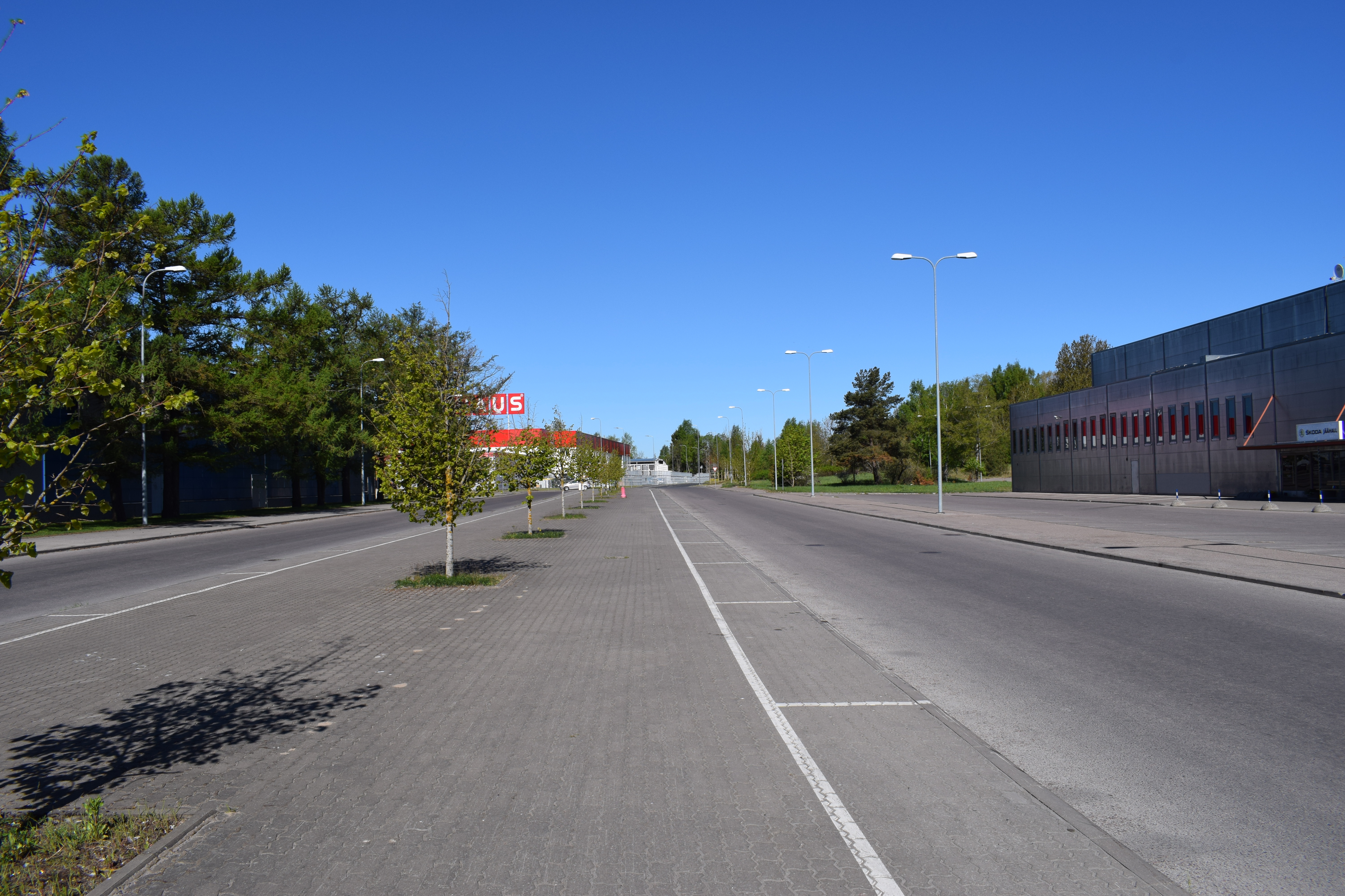 Mäekõrtsi street